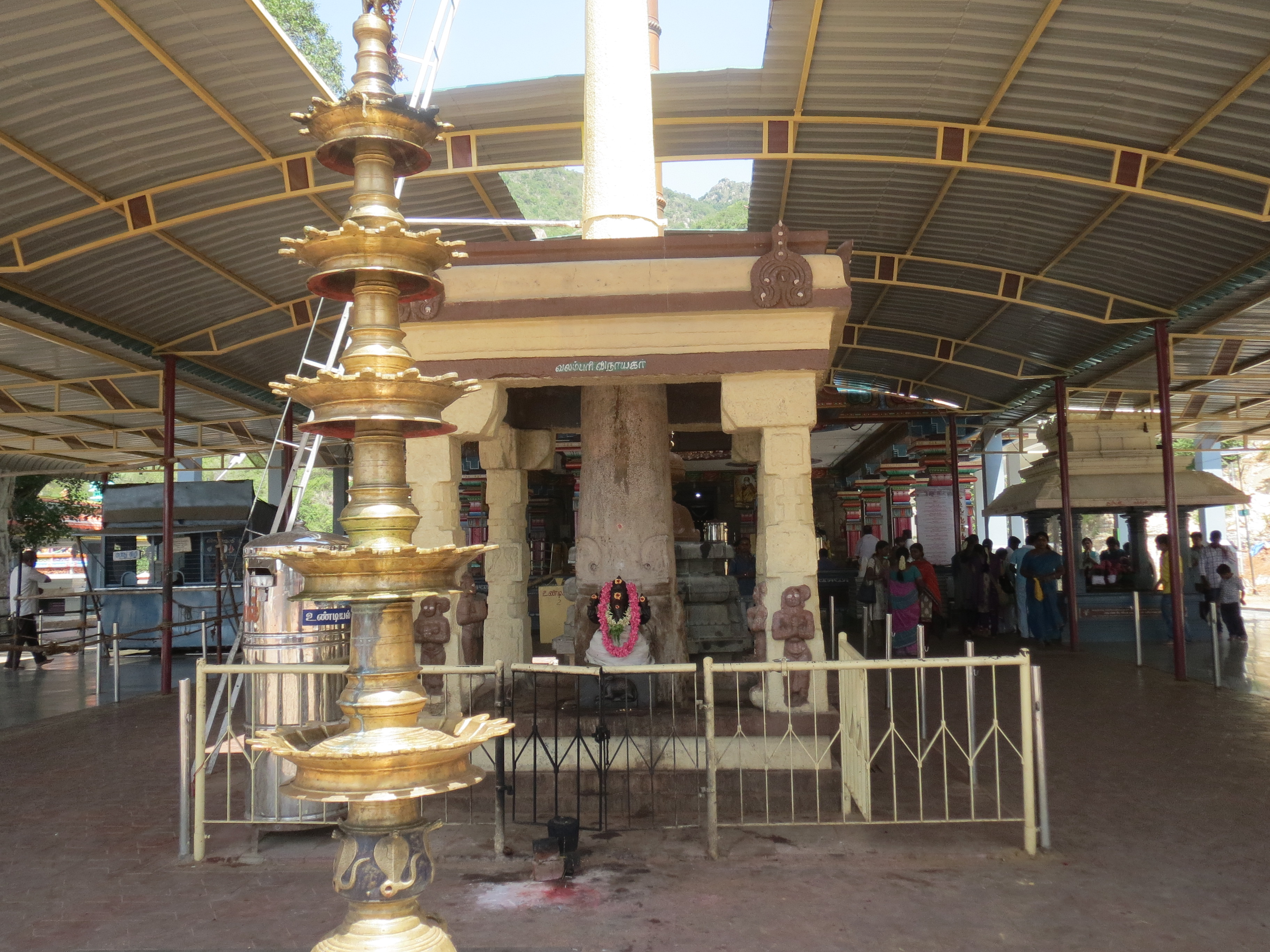 valampuri Vinayagar at the entrance of Maruthamalai Temple. Tamil:மருதமலை கோயில் நுழைவிலுள்ள வலம்புரி விநாயகர்